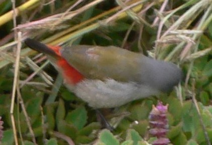 Swee Waxbill (Estrilda melanotis), my image, South Africa Feb 2007